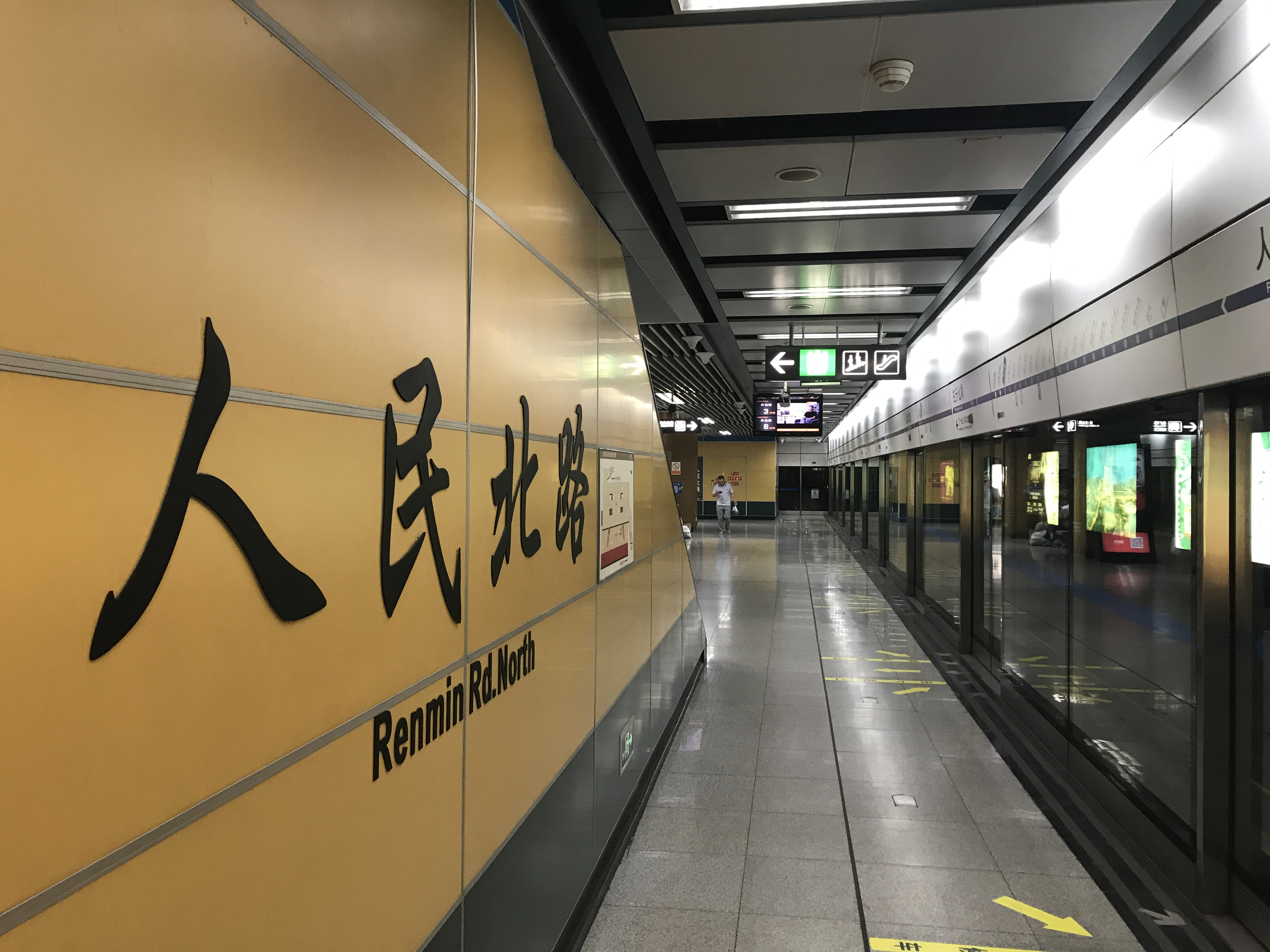 Platform of Renmin Road North Station, Chengdu Metro